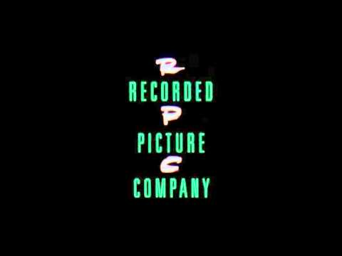 indiependent film company based in London, UK and own by a film producer and director Jeremy Thomas